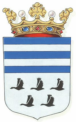 Coat of arms Wijdemeren, Dutch municipality